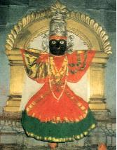 Picture of Shree Yamai of Aundh, Satara, India